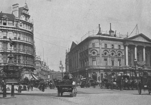 The Queen's London : a Pictorial and Descriptive Record of the Streets, Buildings, Parks and Scenery of the Great Metropolis, 1896 - Shaftesbury Avenue.